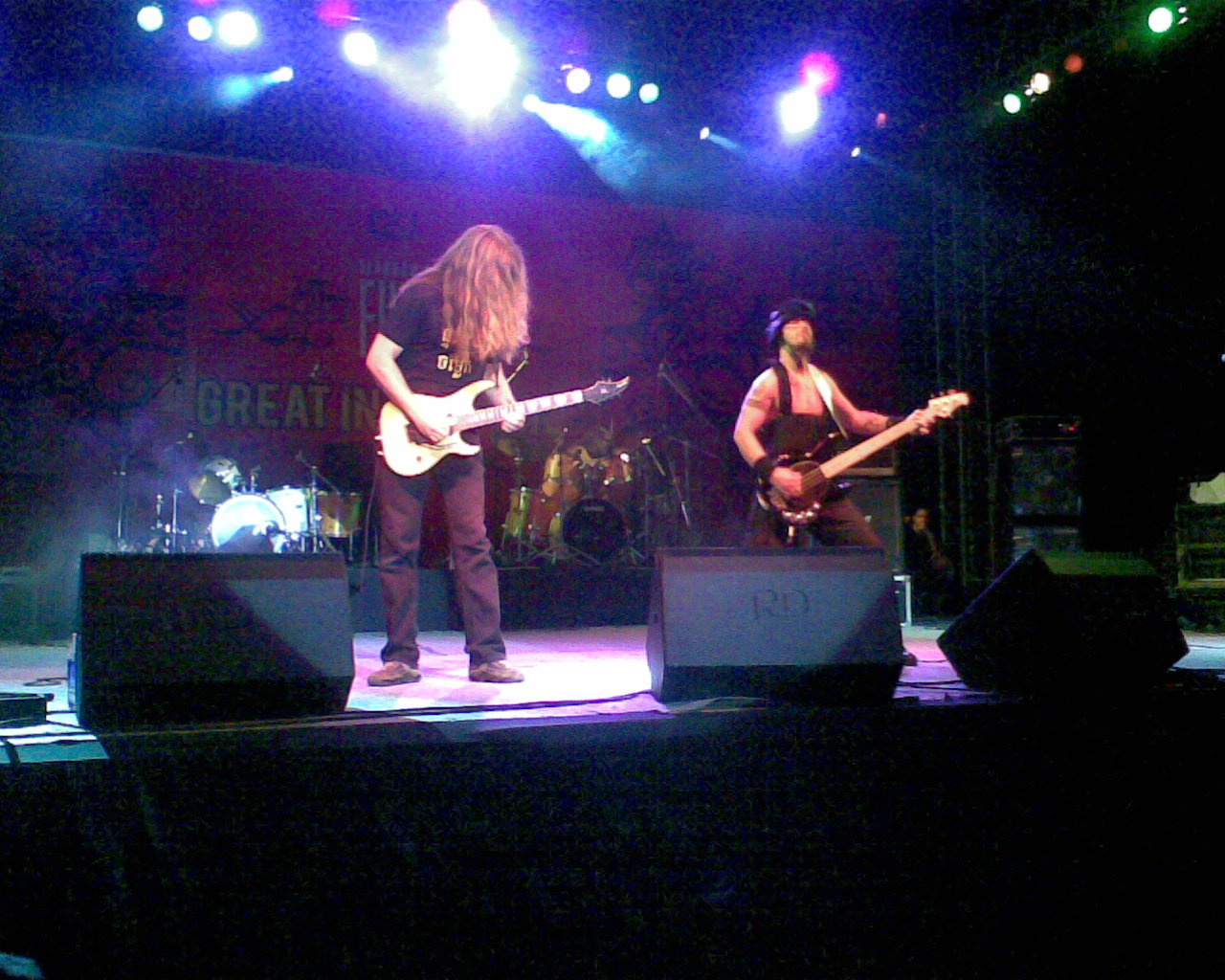 Freak Kitchen Playing At Great Indian Rock - Mumbai on 1st November, 2008.